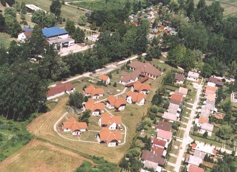 Csokonyavisonta, Hungary, aerial photography